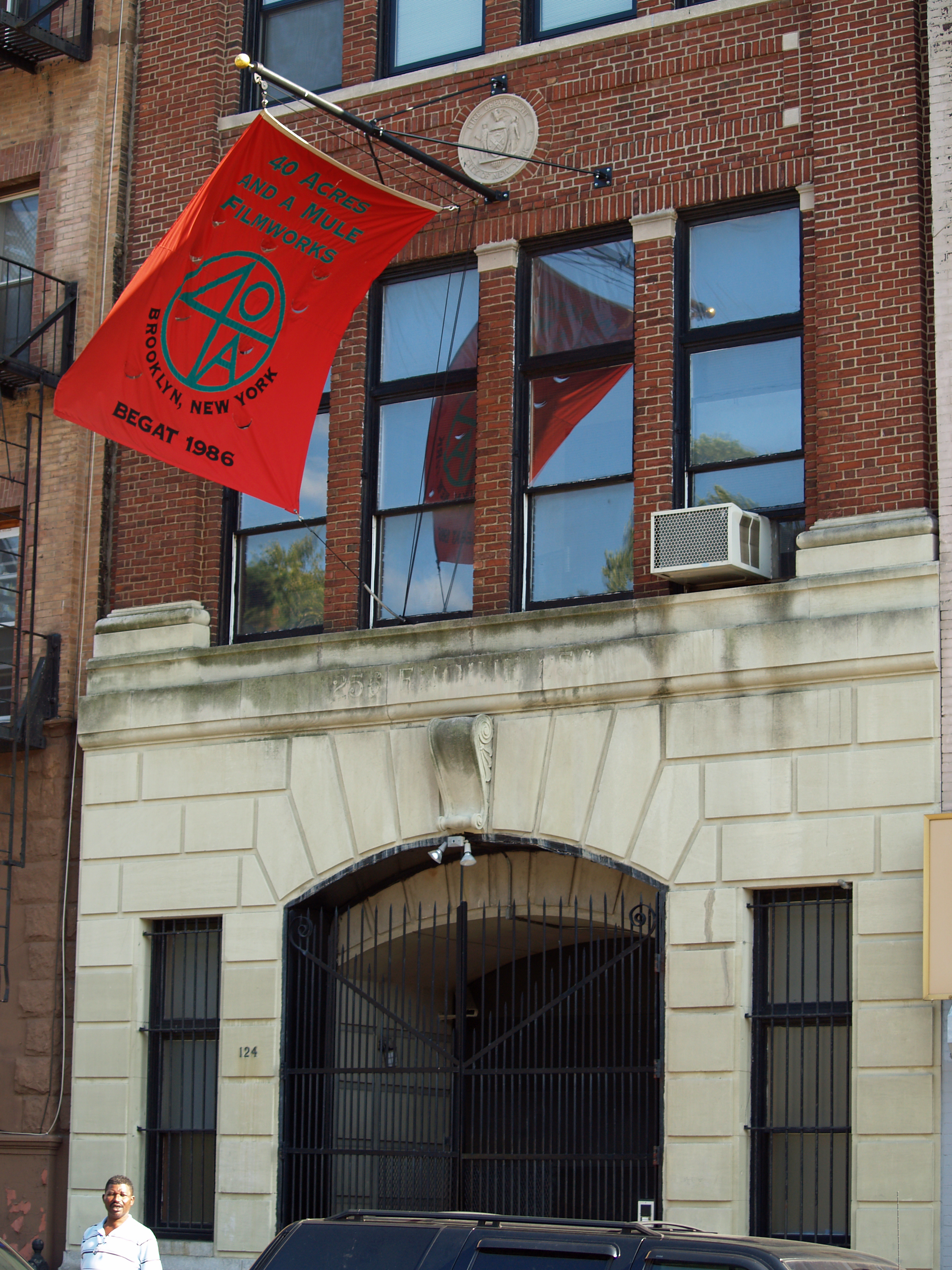 40 Acres & A Mule Filmworks by David Shankbone